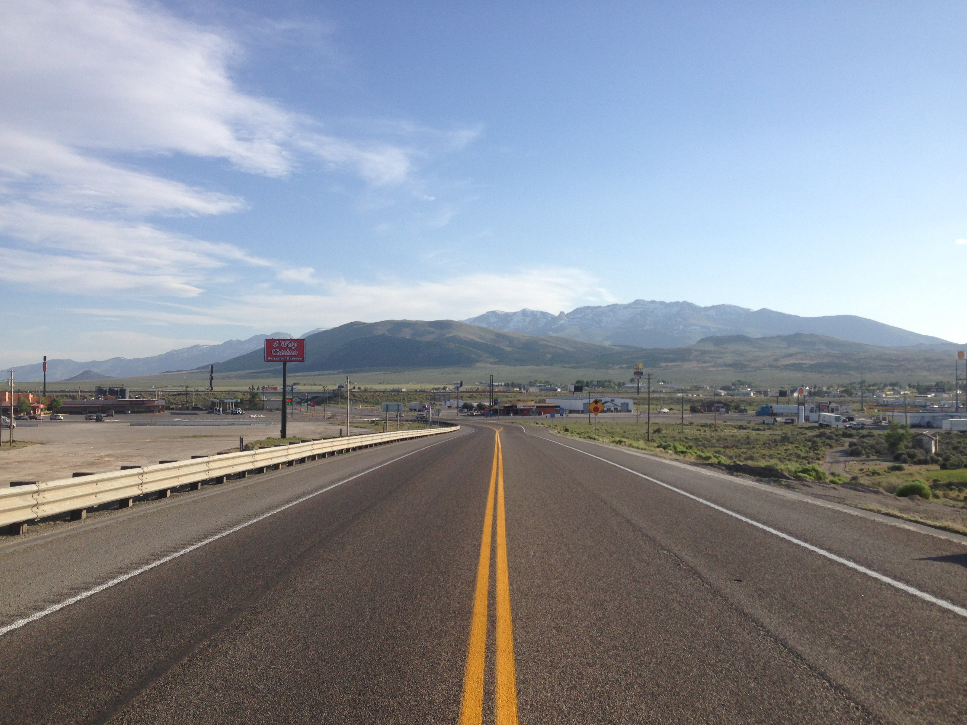 View south along U.S. Route 93 a little north of Nevada State Route 223 in Wells, Nevada